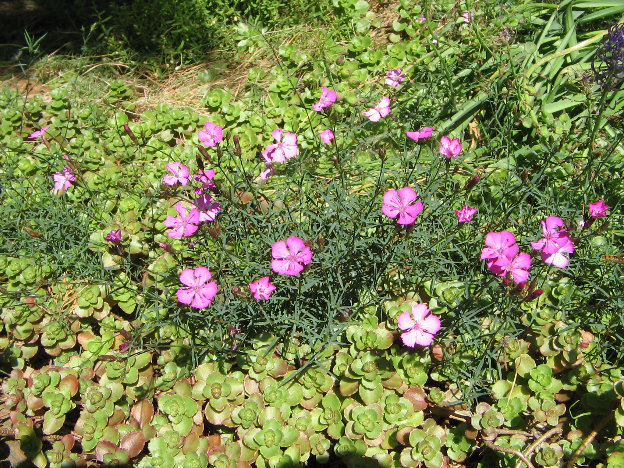 Dianthus graniticus